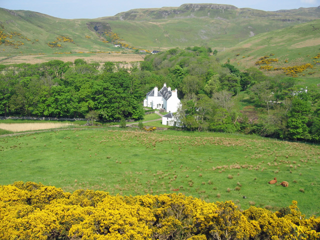 Talisker House Traditionally the home of the eldest son of the Chief of Macleod, Talisker gives its name to the whisky produced six miles away at the distillery in Carbost.